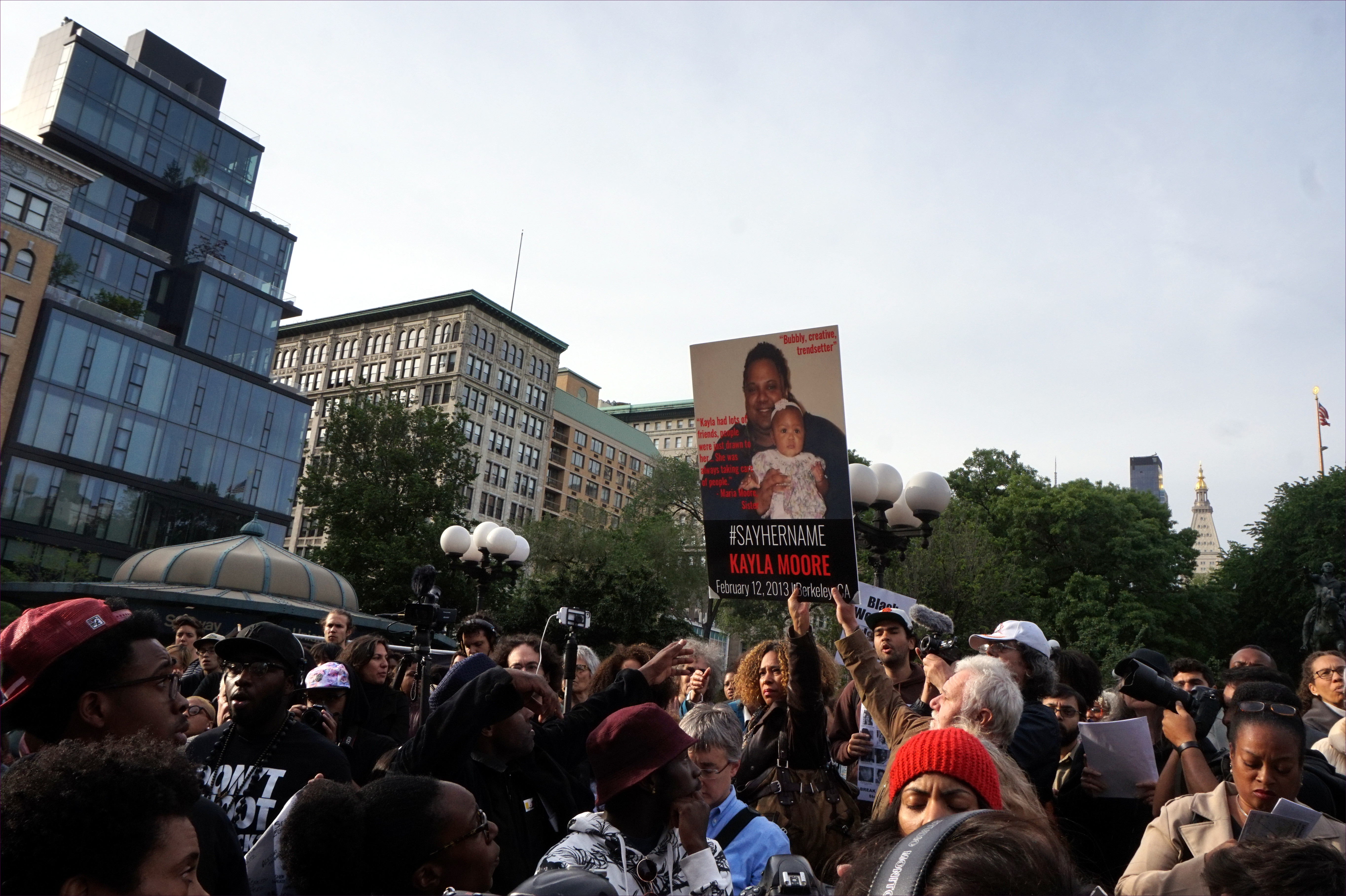 A Vigil in remembrance of Black women and girls killed by the police.